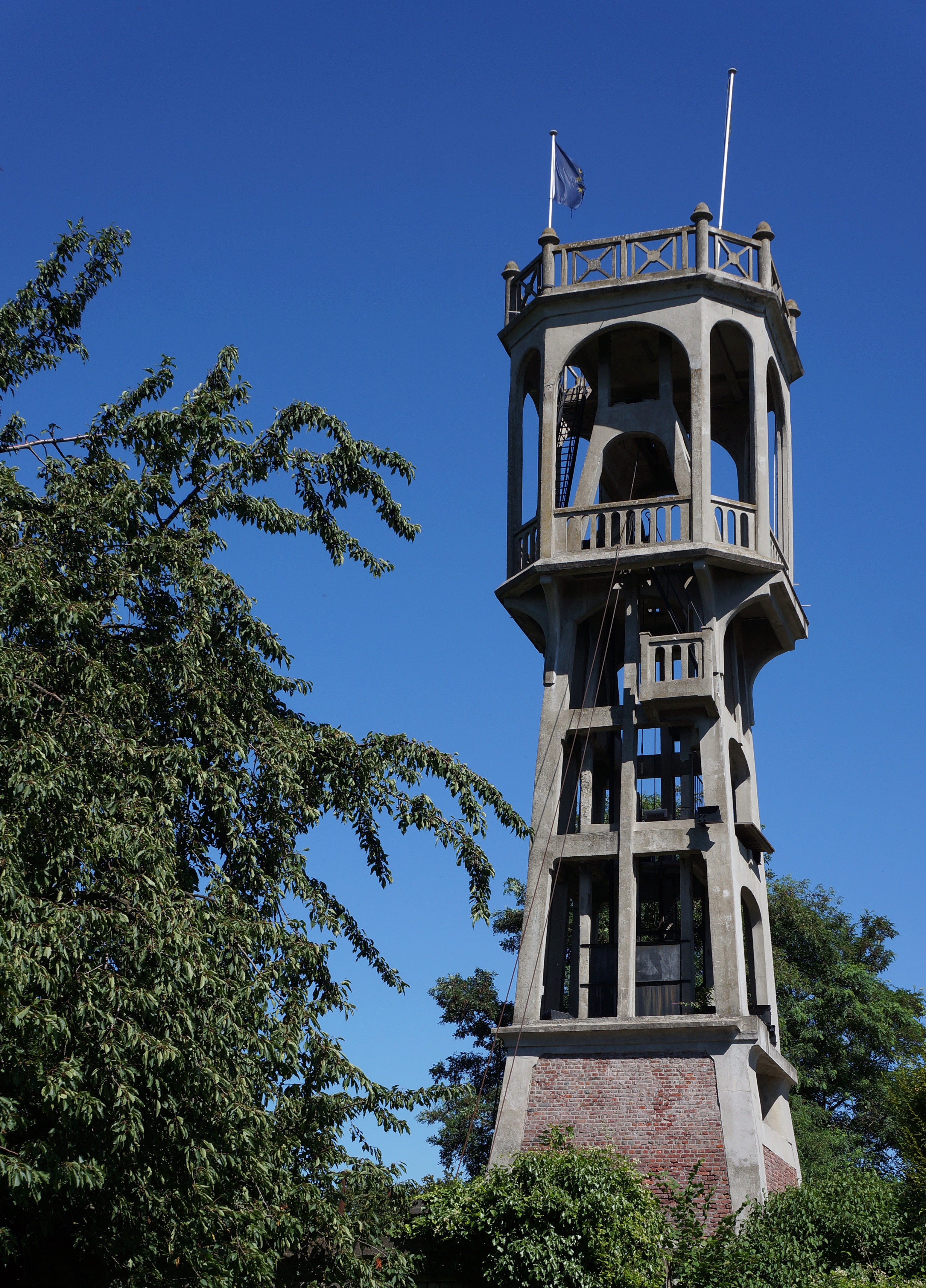 The colliery Hasard located in Cheratte in Belgium: Tower of Well No. 4.